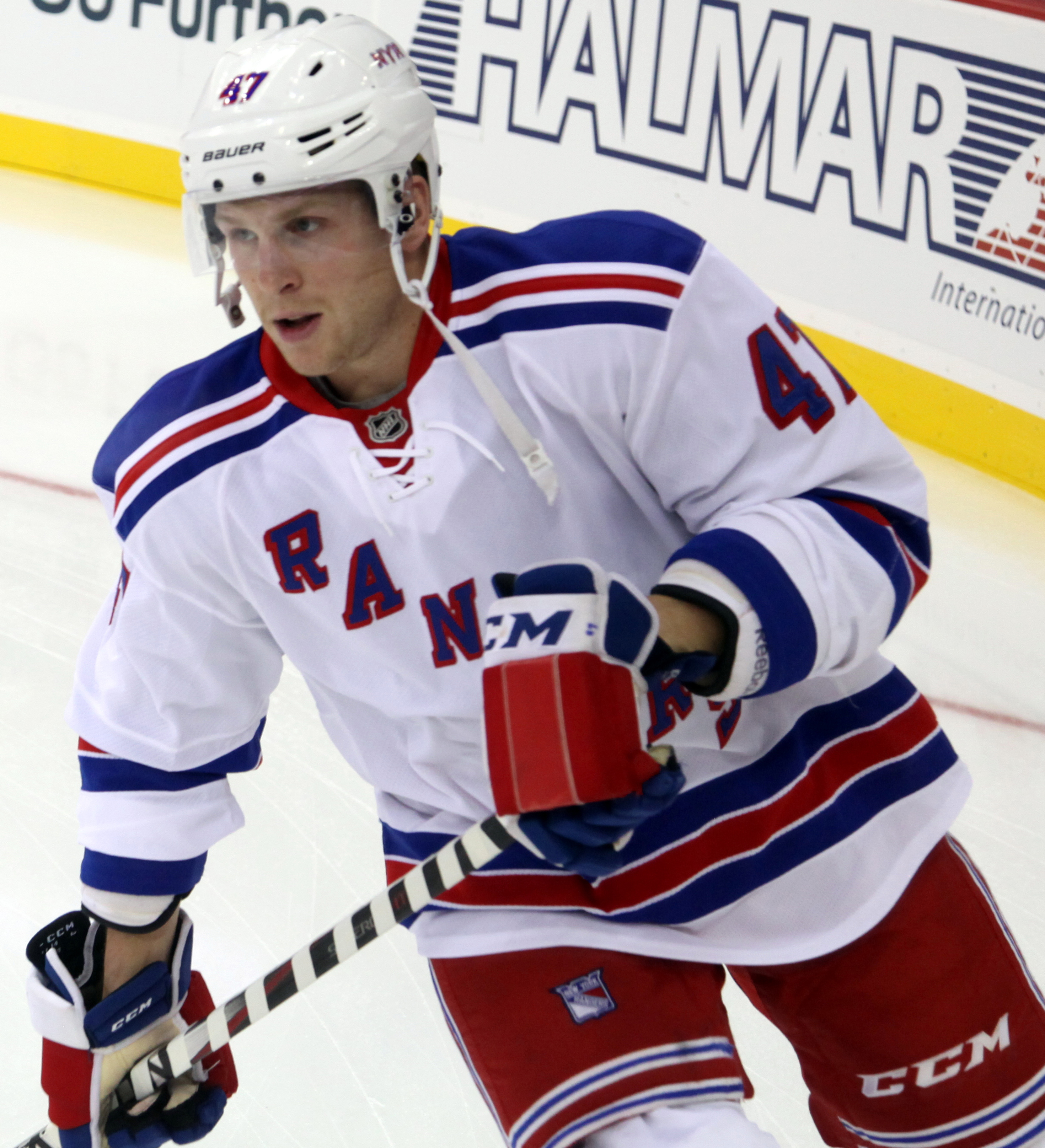 Kampfer as a member of the New York Rangers in October 2014.